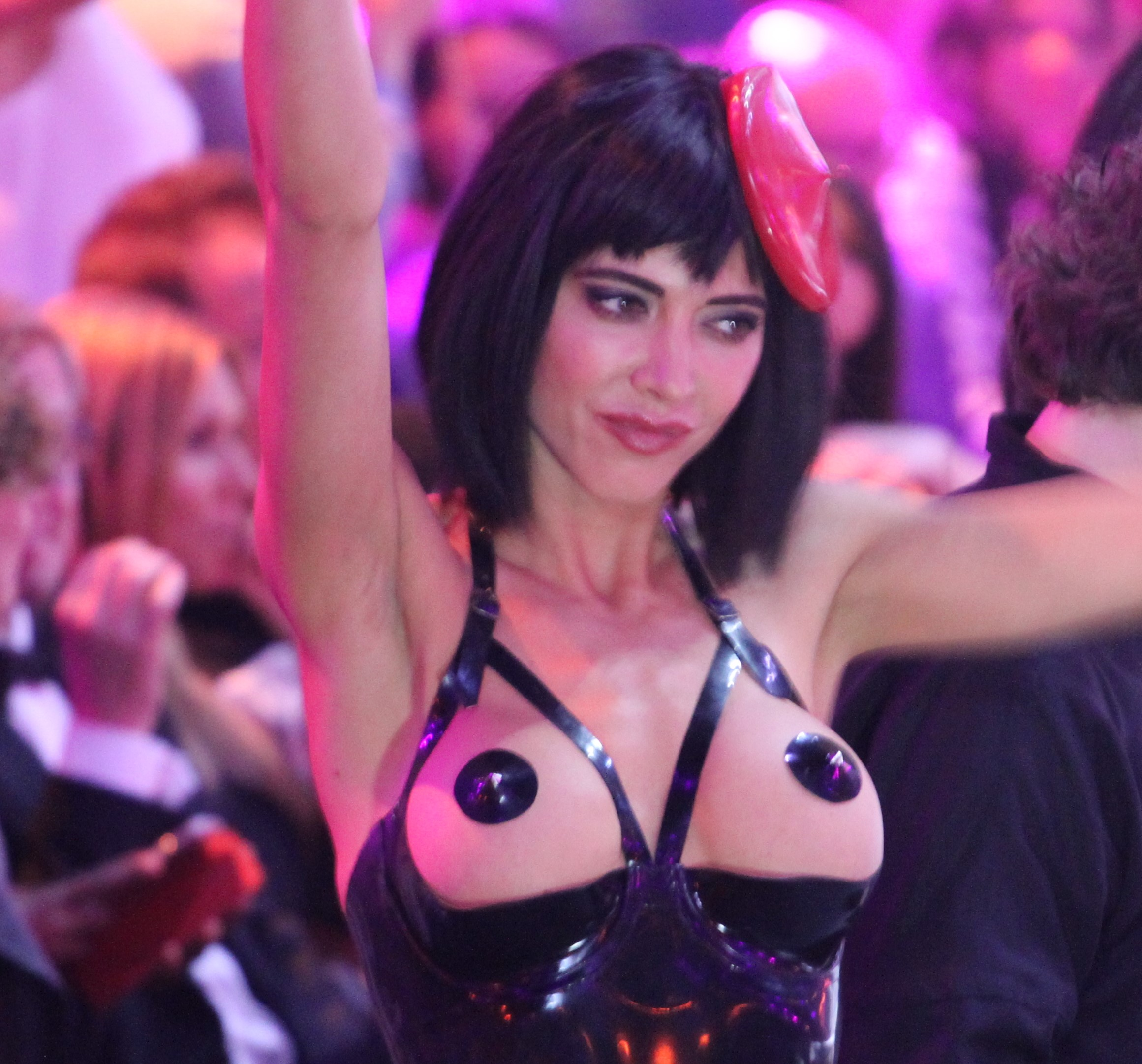 Milo Moiré at the Energy Fashion Night 2016.